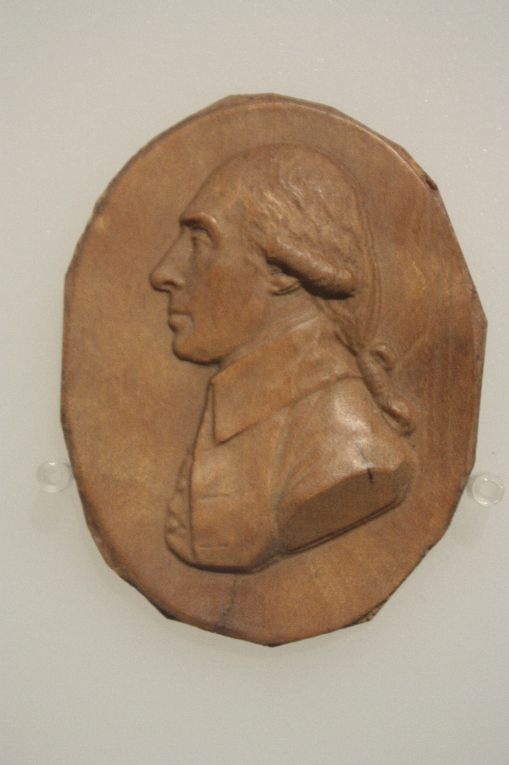 Medallion of Dr Joseph Black, London Science Museum